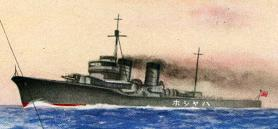 Hayashio was a Kagero-class destroyer of the Imperial Japanese Navy.